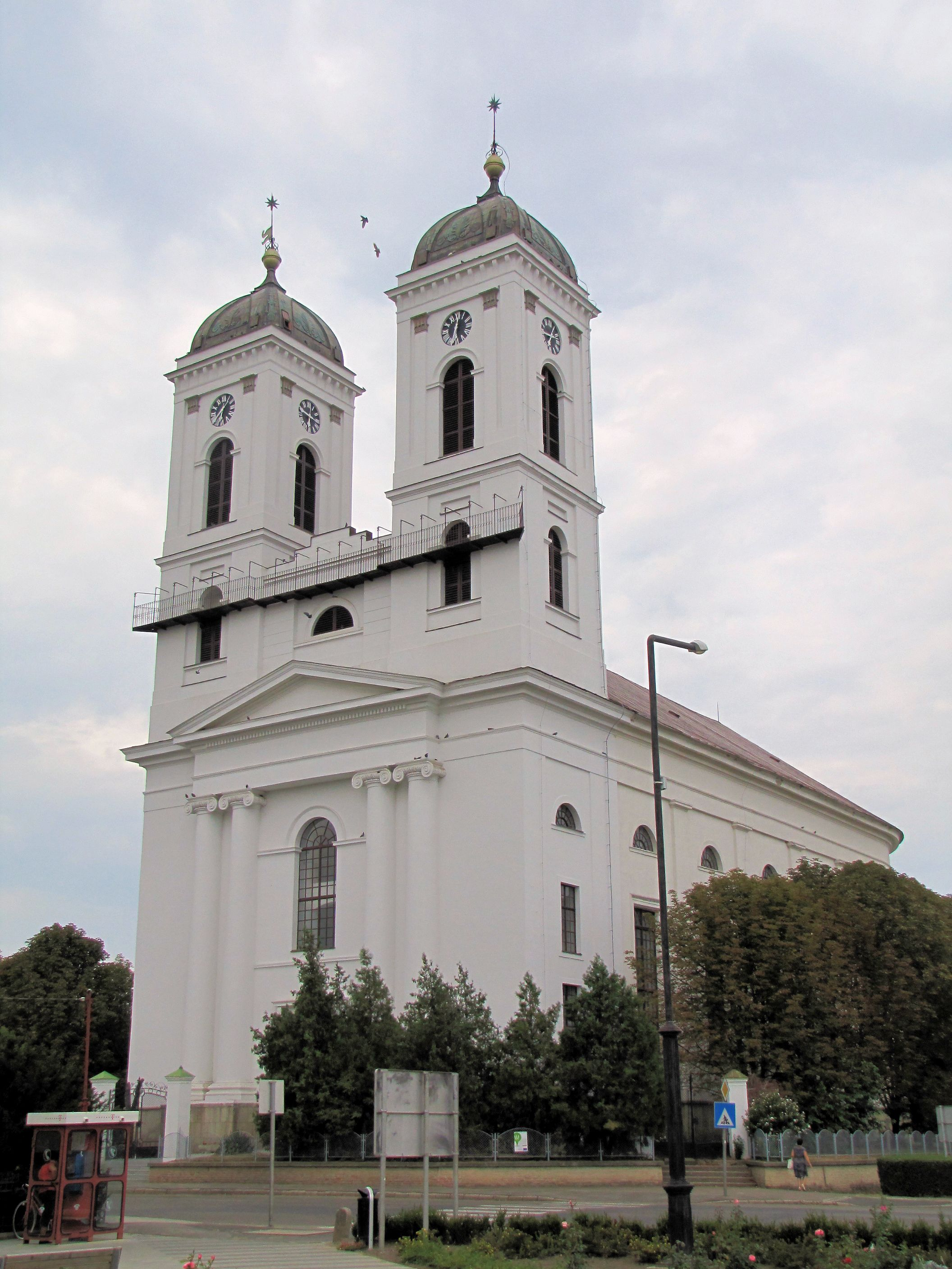 Calvinist church, Kunhegyes, Hungary